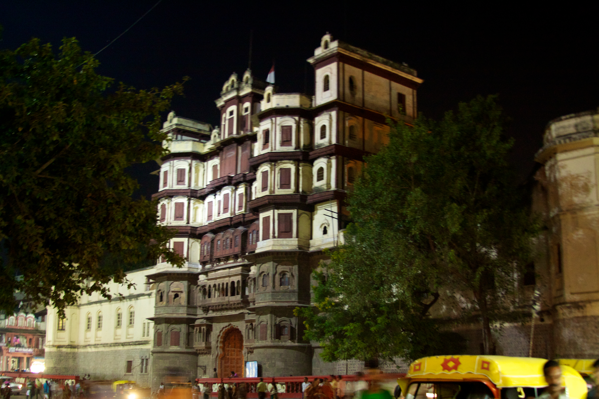 THe Rajwada or the Old Palace, near the bustling Khajuri Bazaar in the old quarter of town.